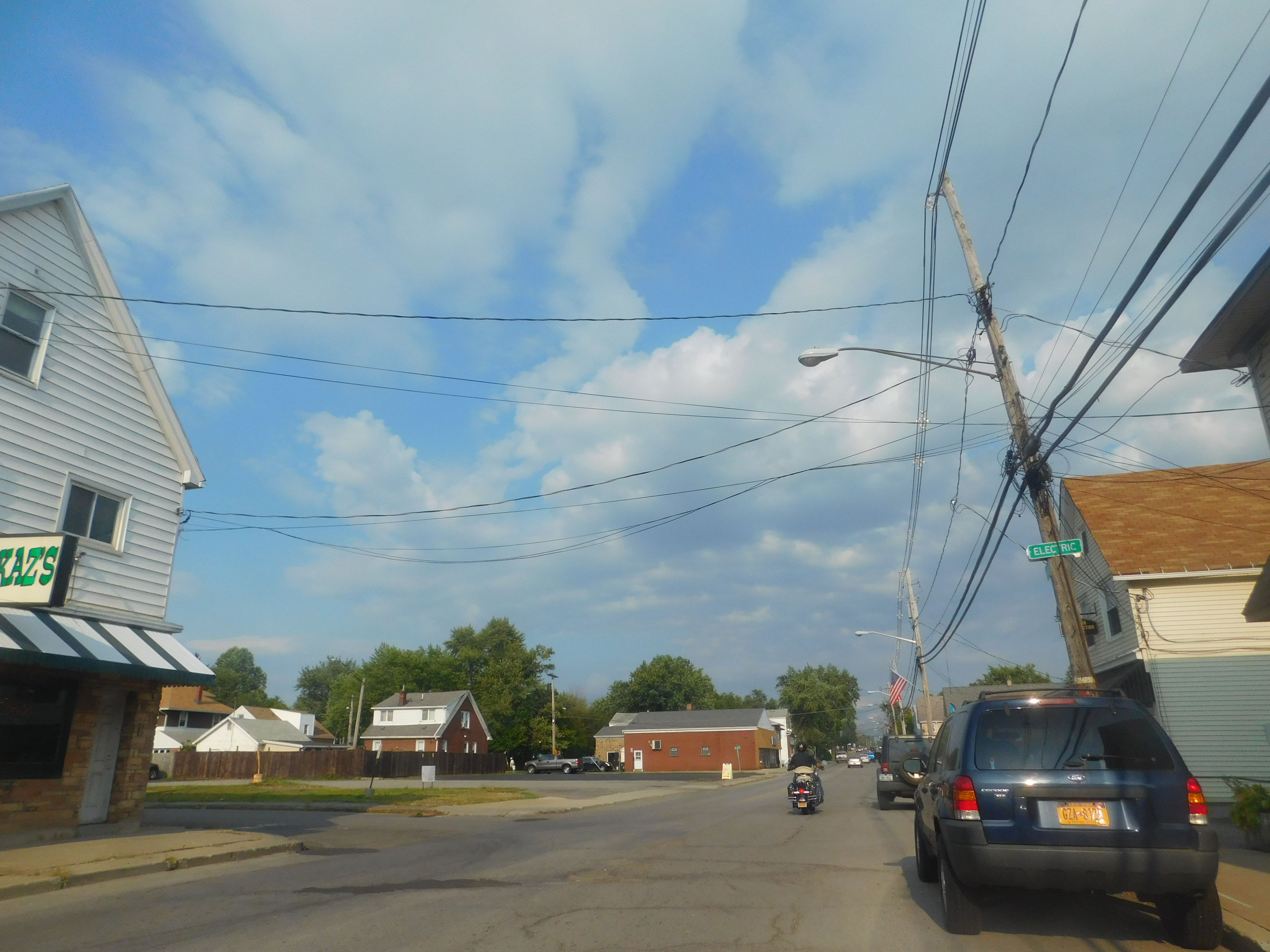 Downtown Blasdell, New York.